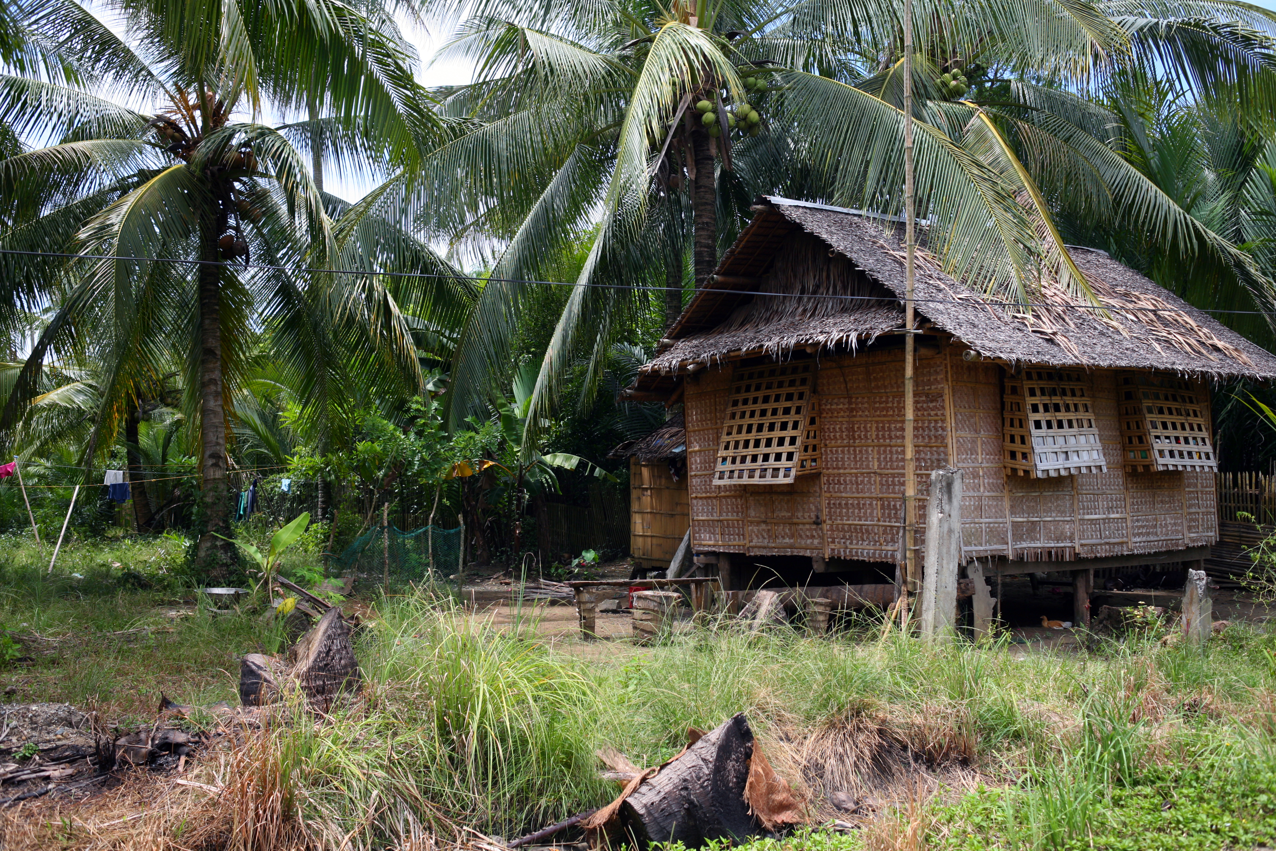 A stilt house near Kalibo, Aklan, Philippines